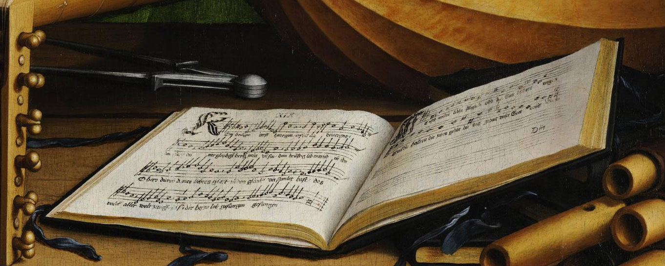 A high resolution image of a Lutherian Psalmbook, detail from Holbein's painting The Ambassadors.